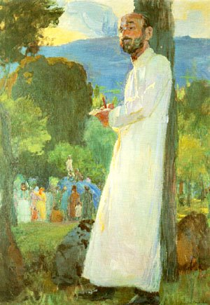 "Komitas"